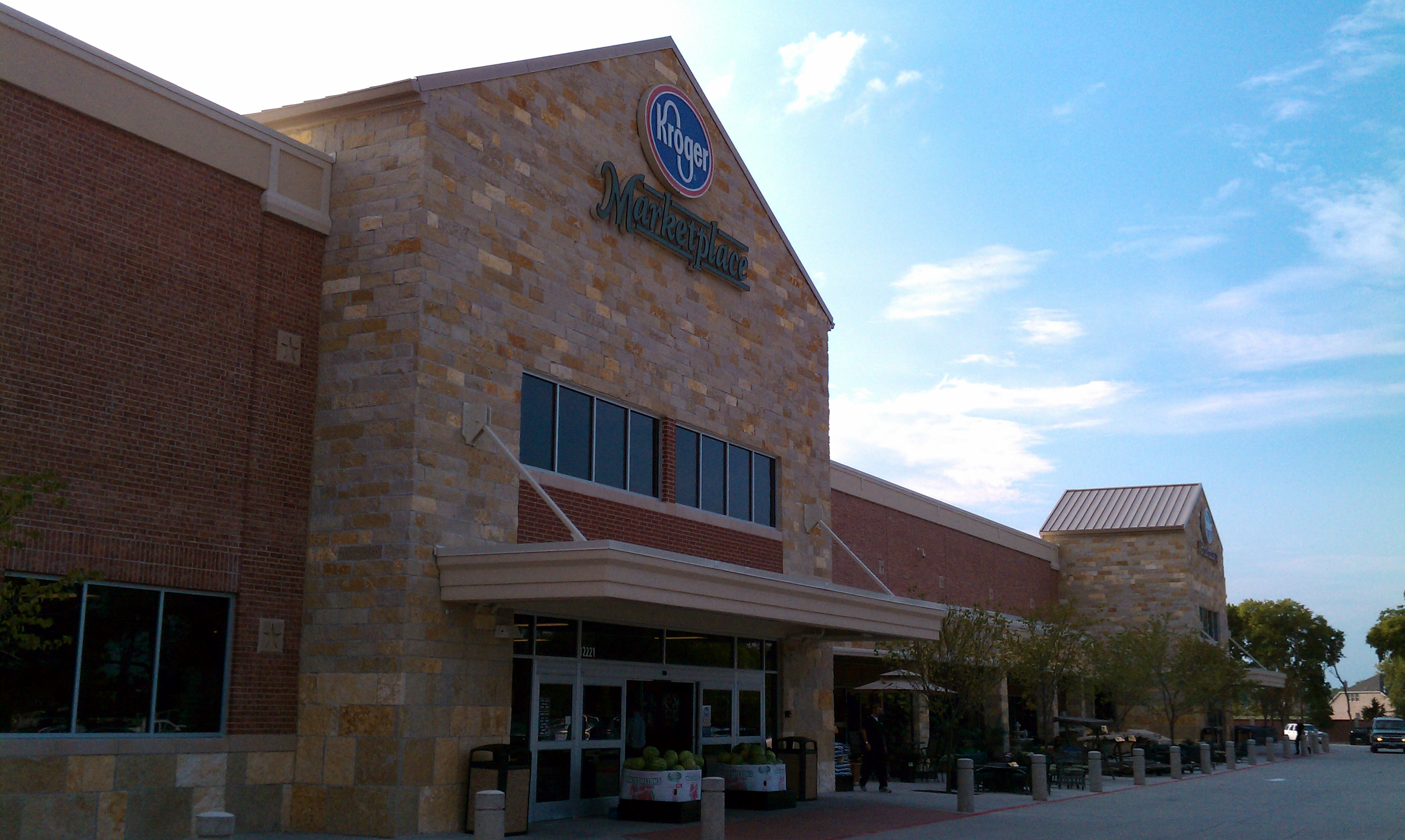 Kroger Marketplace in Frisco, TX (NW corner of Custer Rd. and Eldorado Pkwy.)